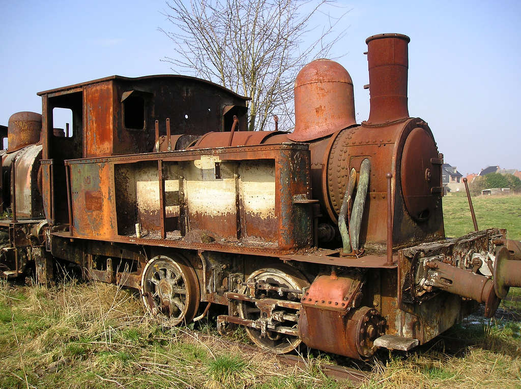 Old small rusty steam locomotive. This locomotive belongs to Dendermonde-Puurs heritage railway, but because of its quite poor condition, it's unlikely that it'll be restored in near future.